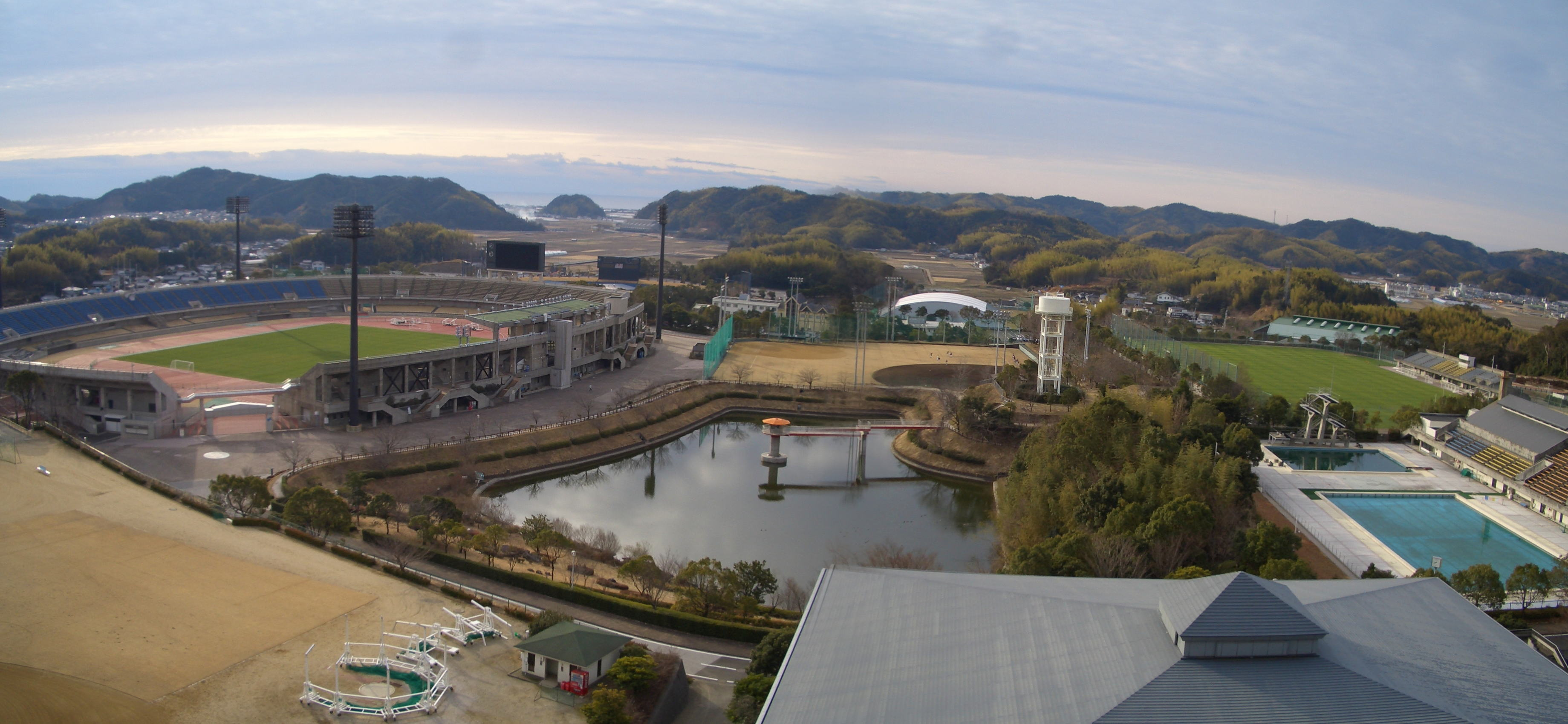 Haruno Sportspark. Kochi-shi,Japan